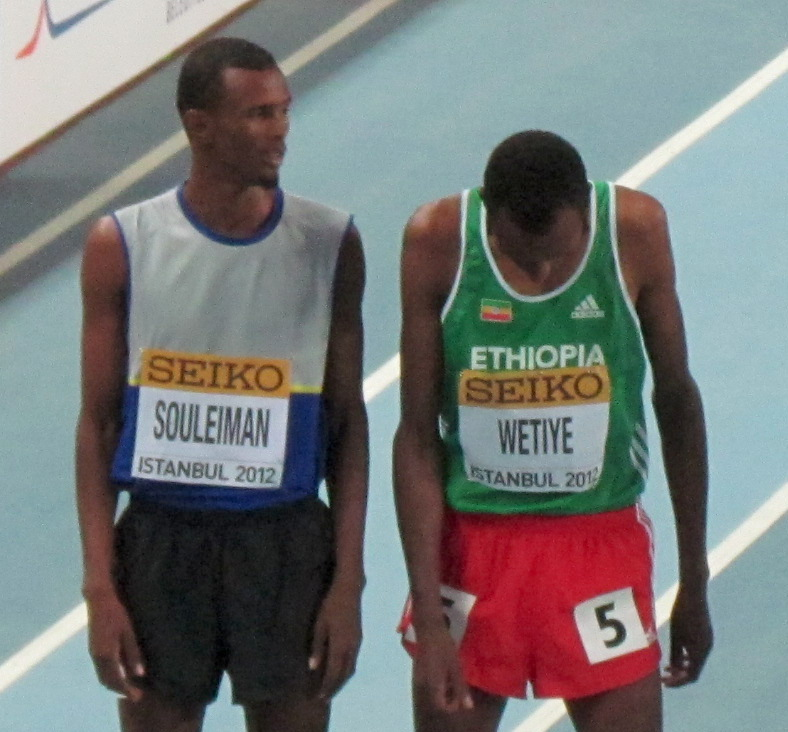 The 2012 IAAF World Indoor Championships in Athletics was the 14th edition of the global-level indoor track and field competition and was held between March 9–11, 2012 at the Ataköy Athletics Arena in Istanbul, Turkey. Ayanleh Souleiman, Aman Wote